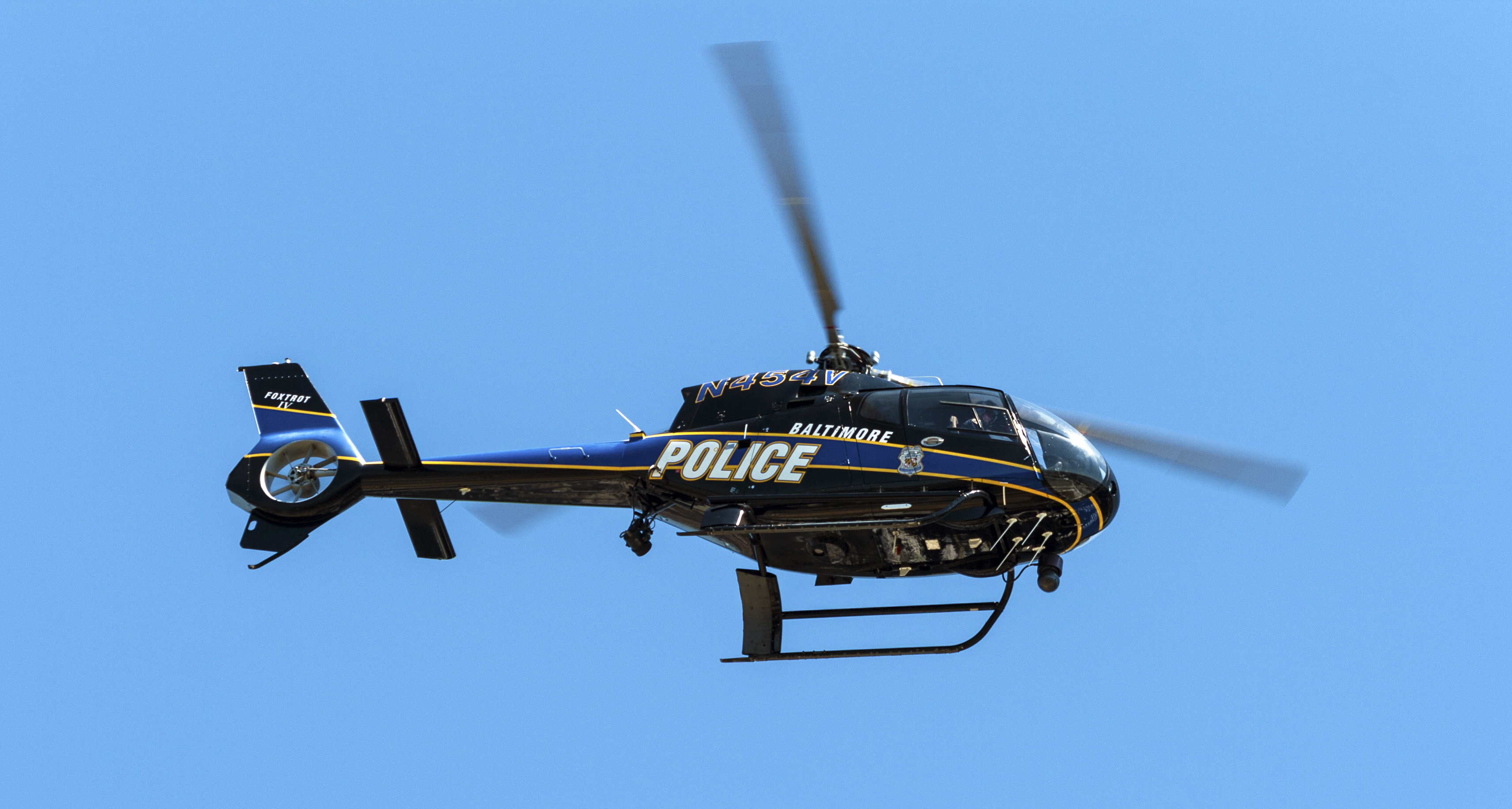 Baltimore Police Department helicopter Foxtrot IV, photographed at Sailabration 2012 over the Inner Harbor